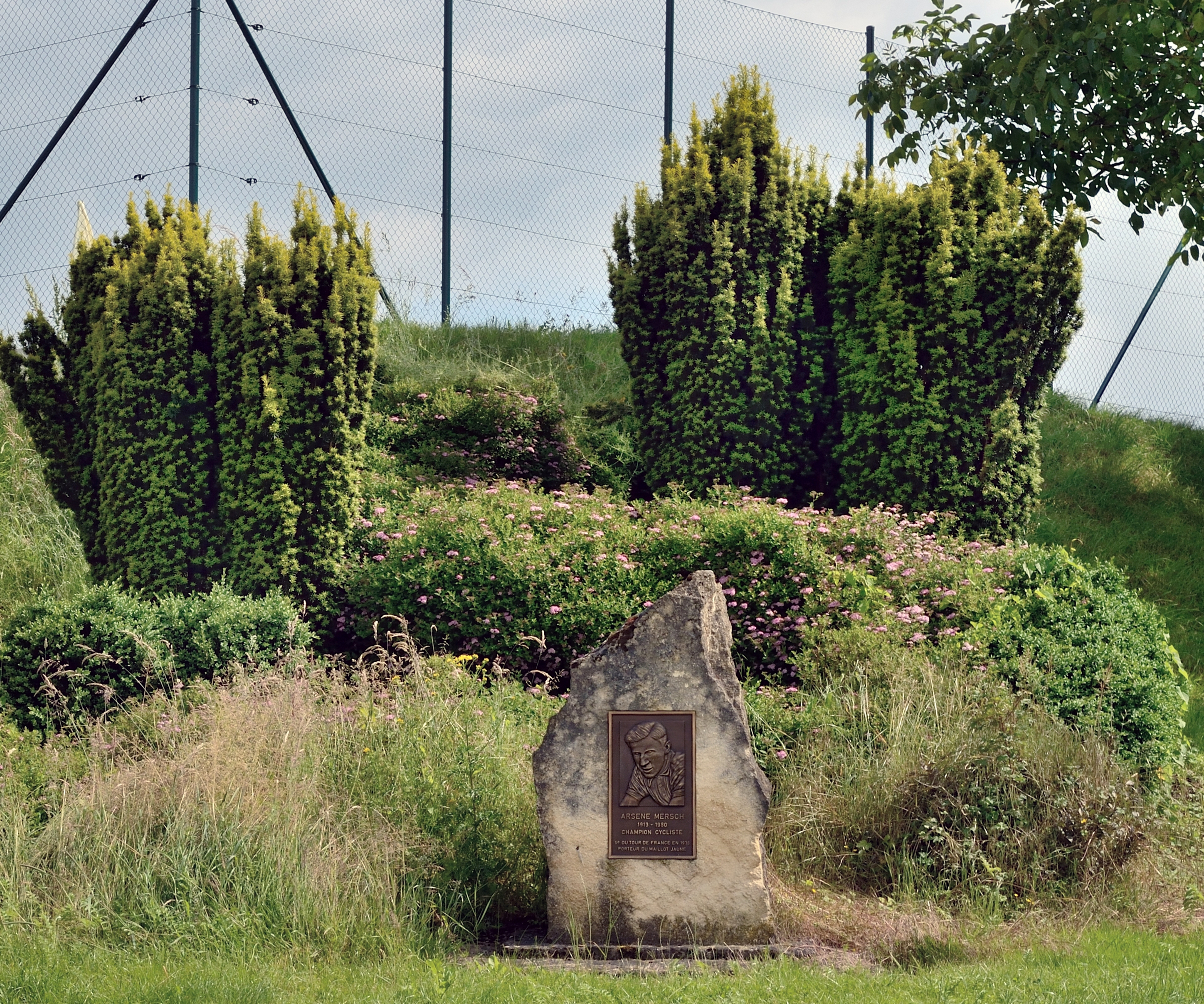 Luxembourg, Koerich: monument commemorating the cyclist Arsène Mersch (1913-1980).